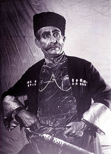 Alakbar Huseynzada as Sultanbek